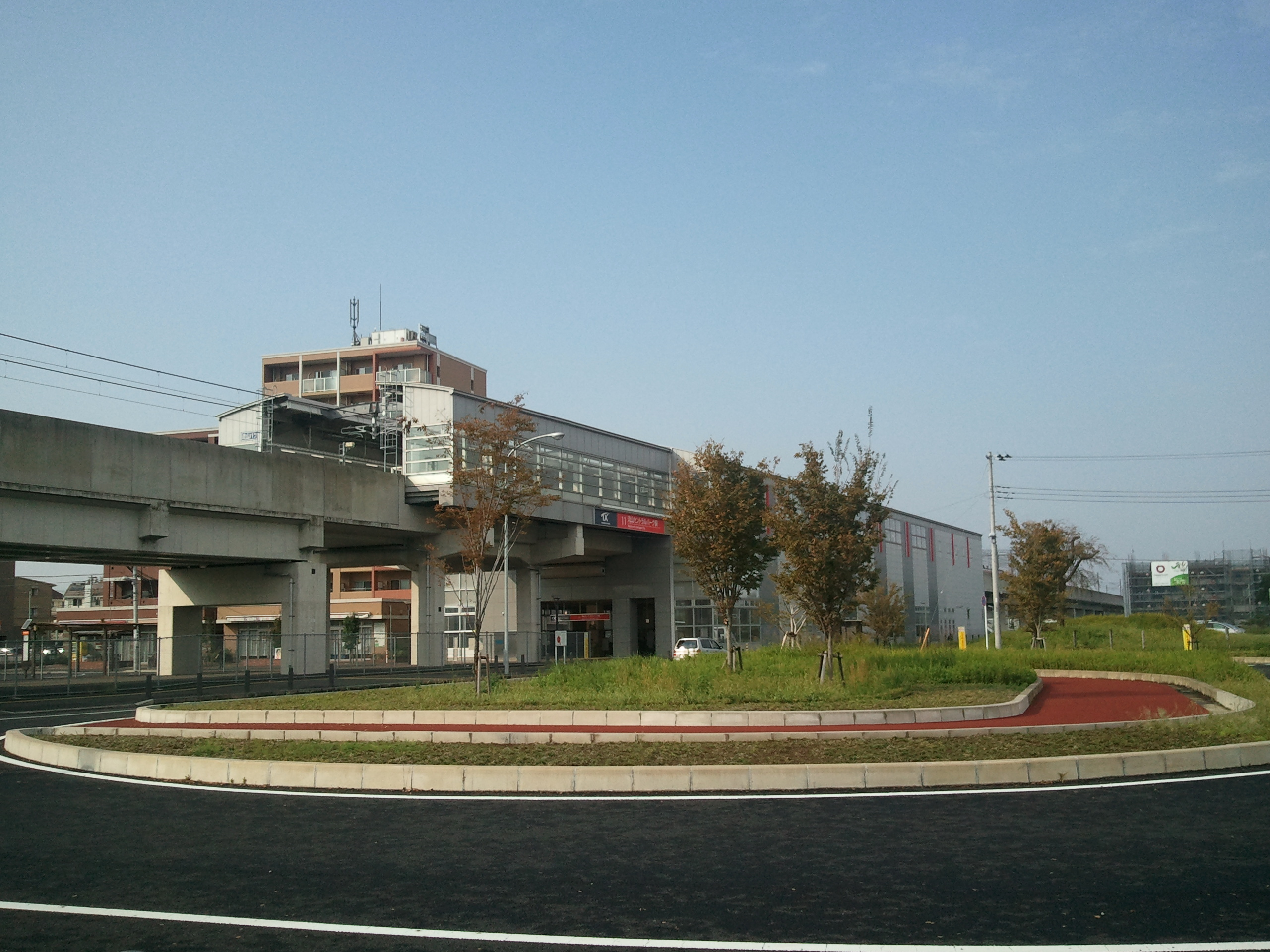 East side of Nagareyama-centralpark Station on the Tsukuba Express